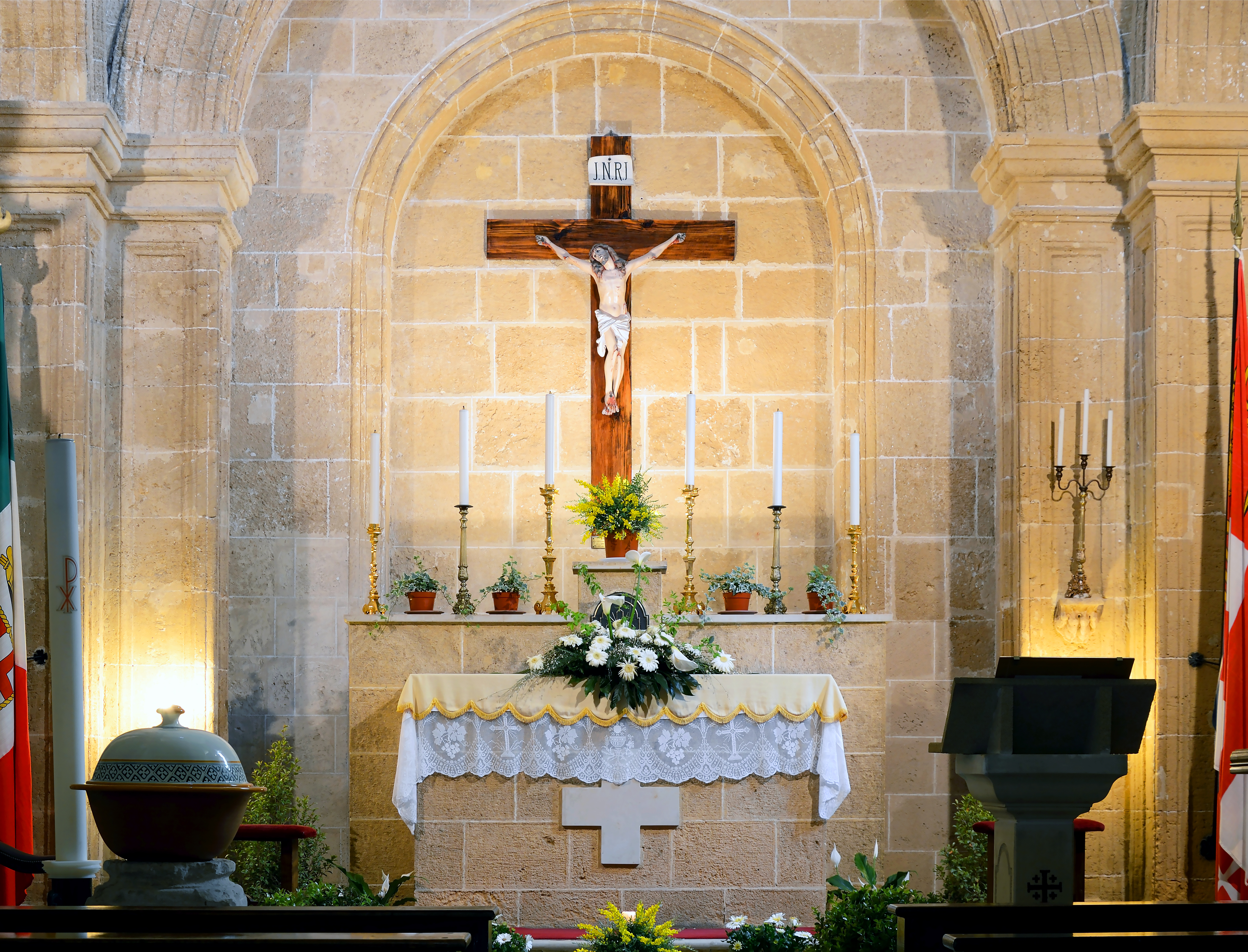 Altar of Chapel St. Leonardo in Castello Aragonese in Taranto